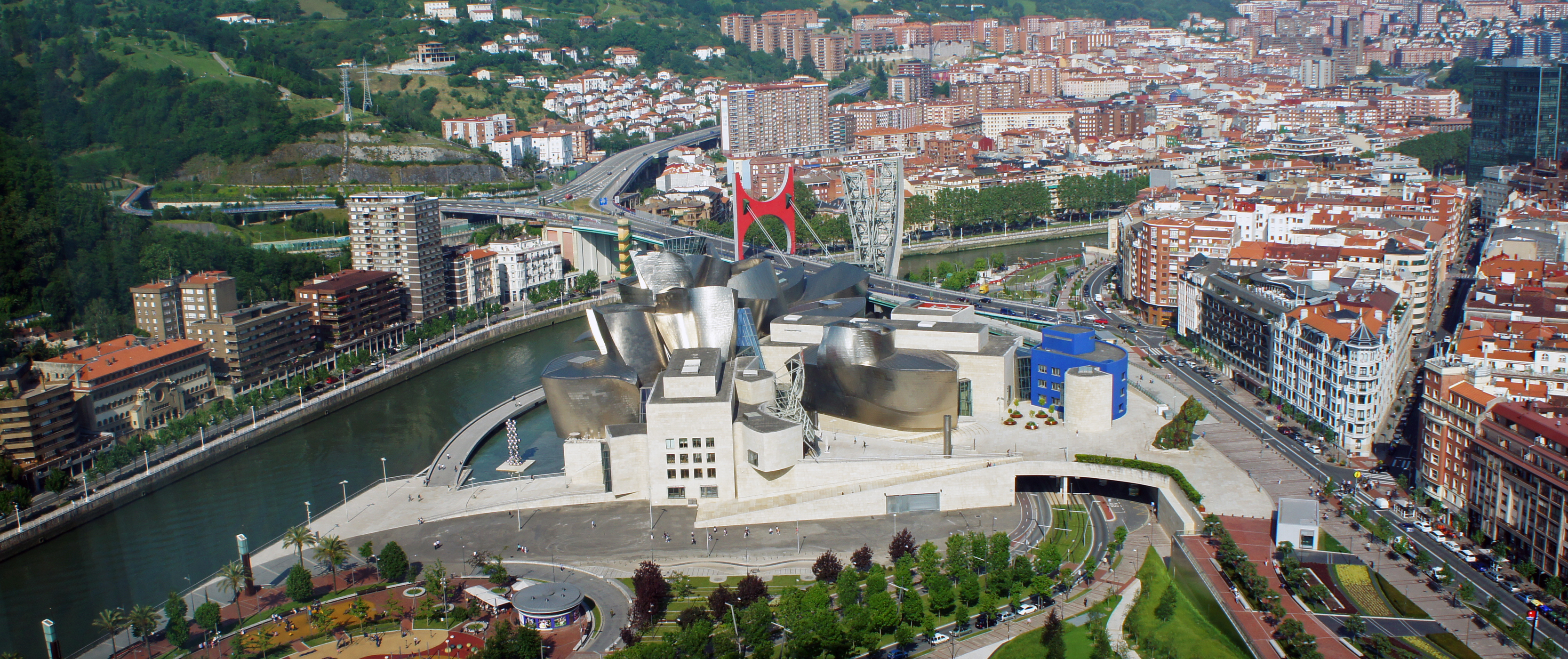 Panoramic view of the Guggenheim Museum Bilbao and surrounding area from the Iberdrola Tower. The La Salve bridge is in the background. The Museum is located on the left bank of the Nervion river. Bilbao, Basque Country, Spain.